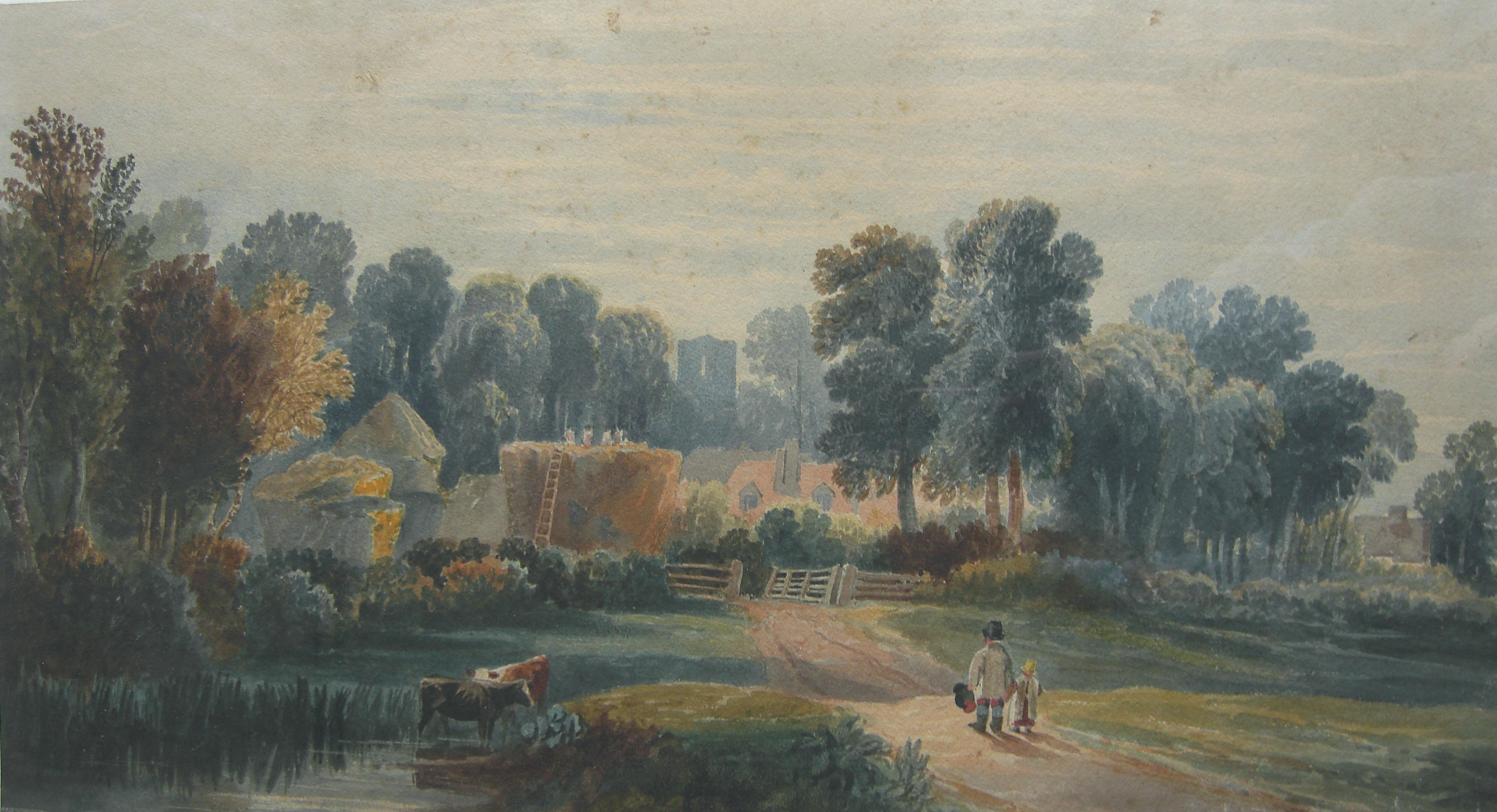 Inscr. on mount br.